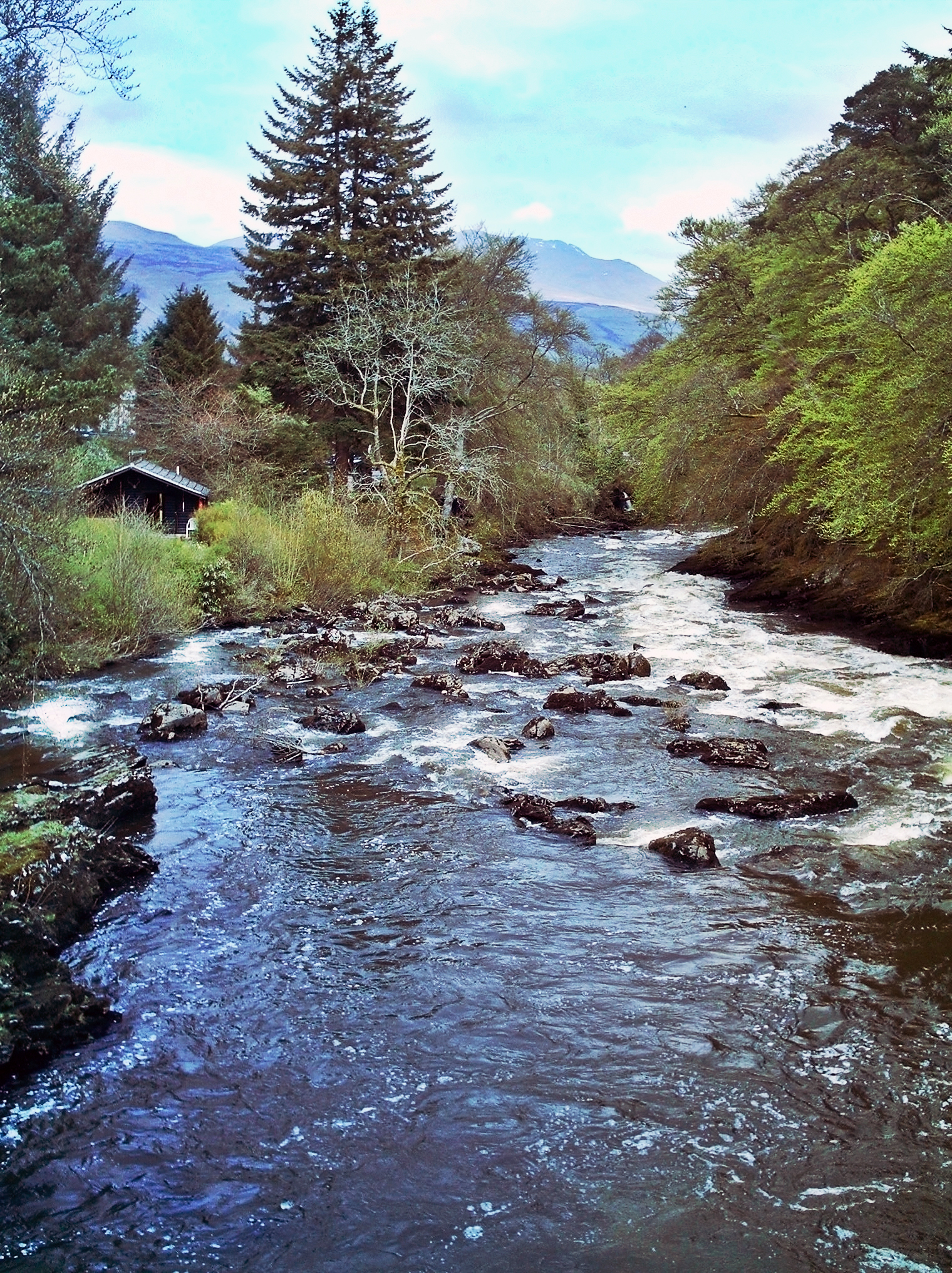 River Dochart - Scotland - Perthshire. May 2006.